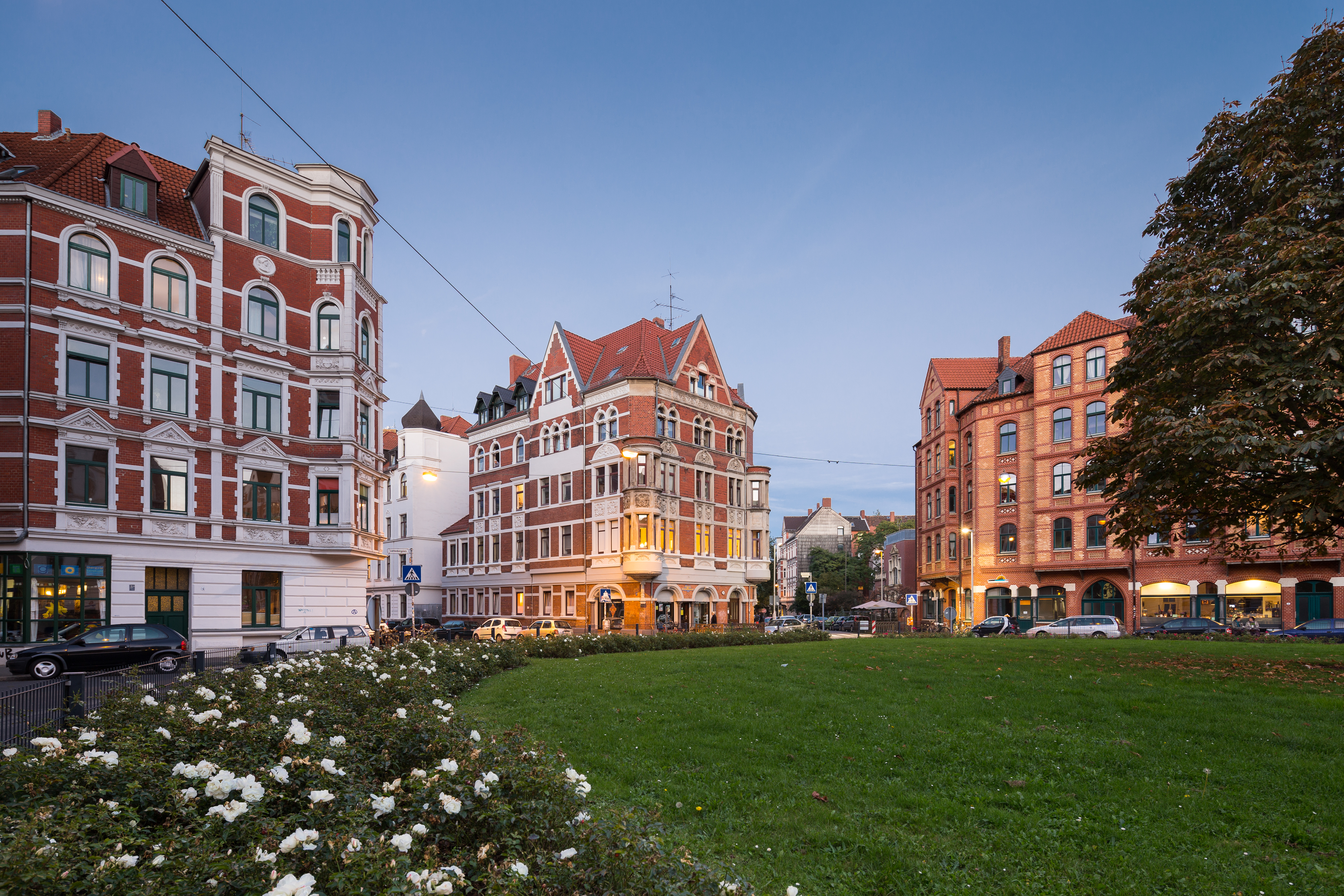 Lichtenbergplatz square located in Linden district of Hanover, Germany.